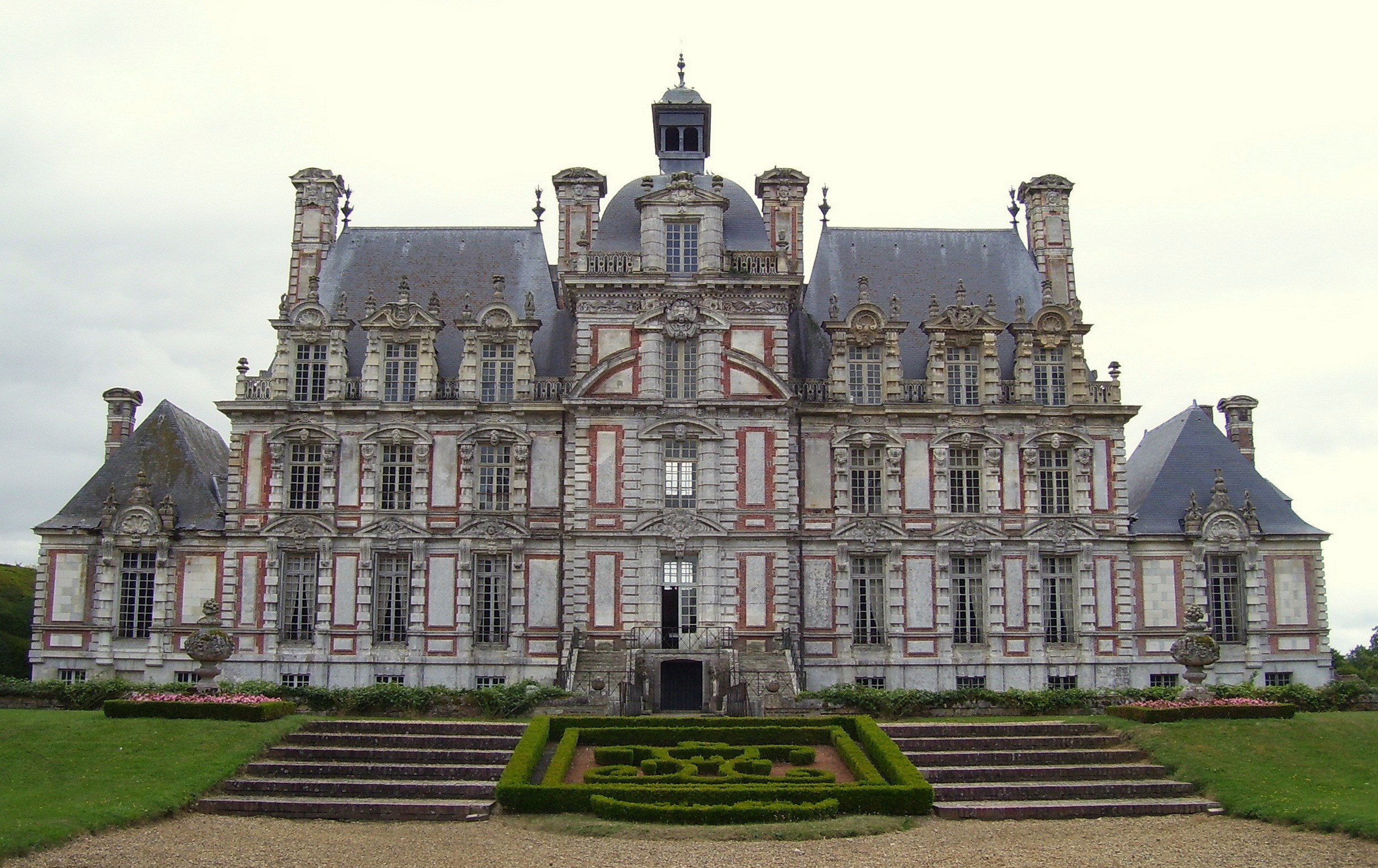 The Château de Beaumesnil is a baroque castle that was built between 1633 and 1640. Beaumesnil is a town in the departement Eure in France.